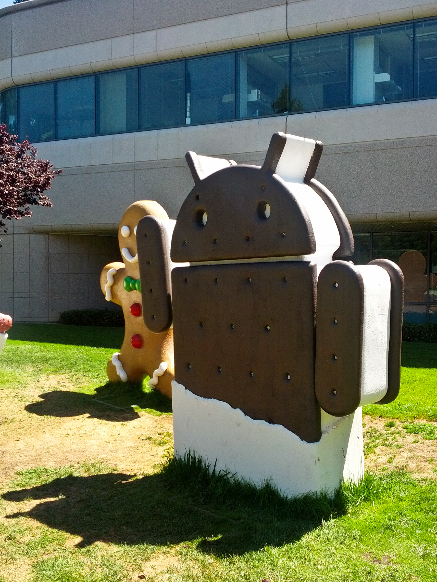 IceCream Sandwich